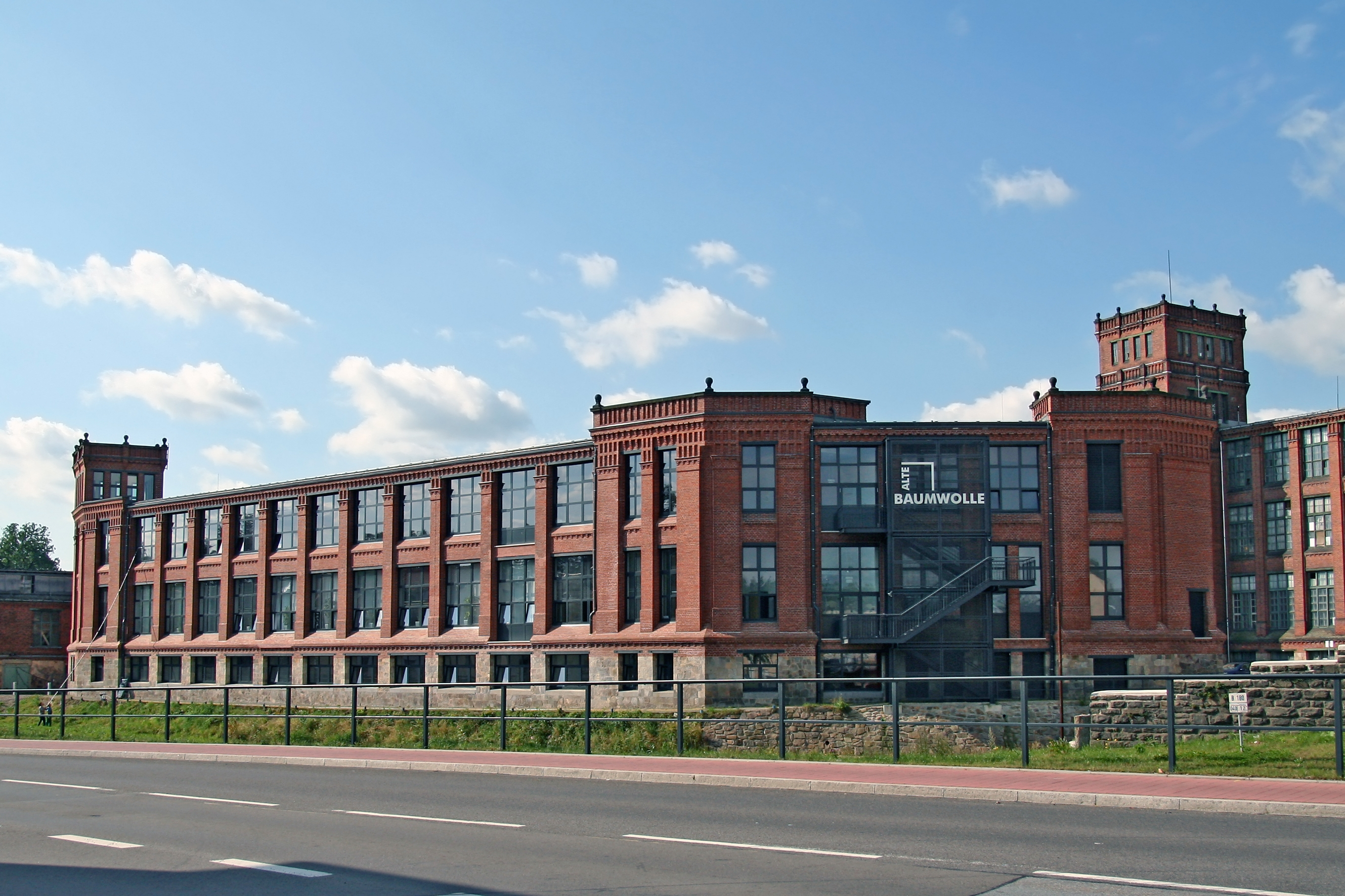 Flöha, Saxony, spinning mill